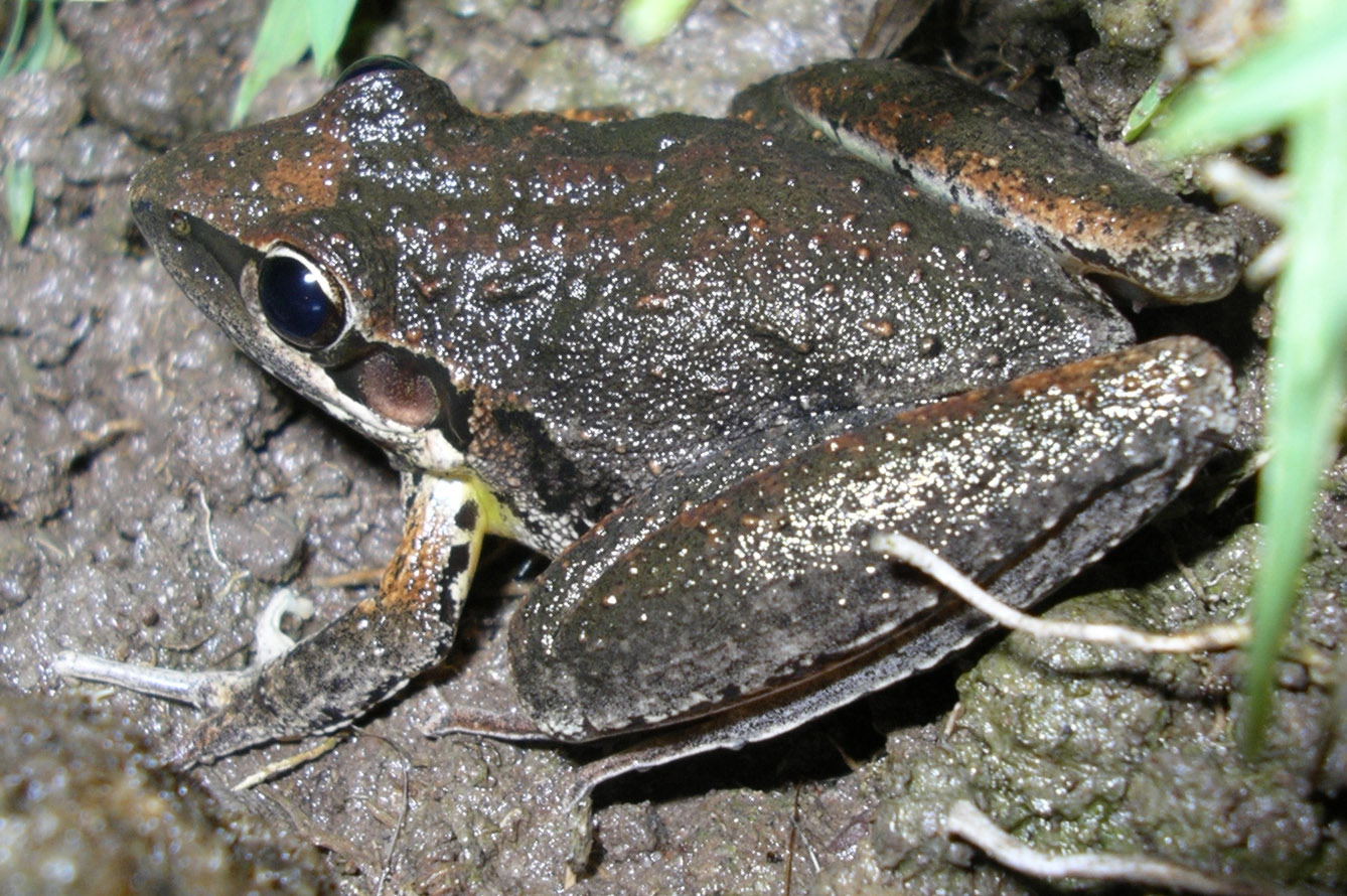 Broad Palmed Frog (Litoria latopalmata) Category:Frog images